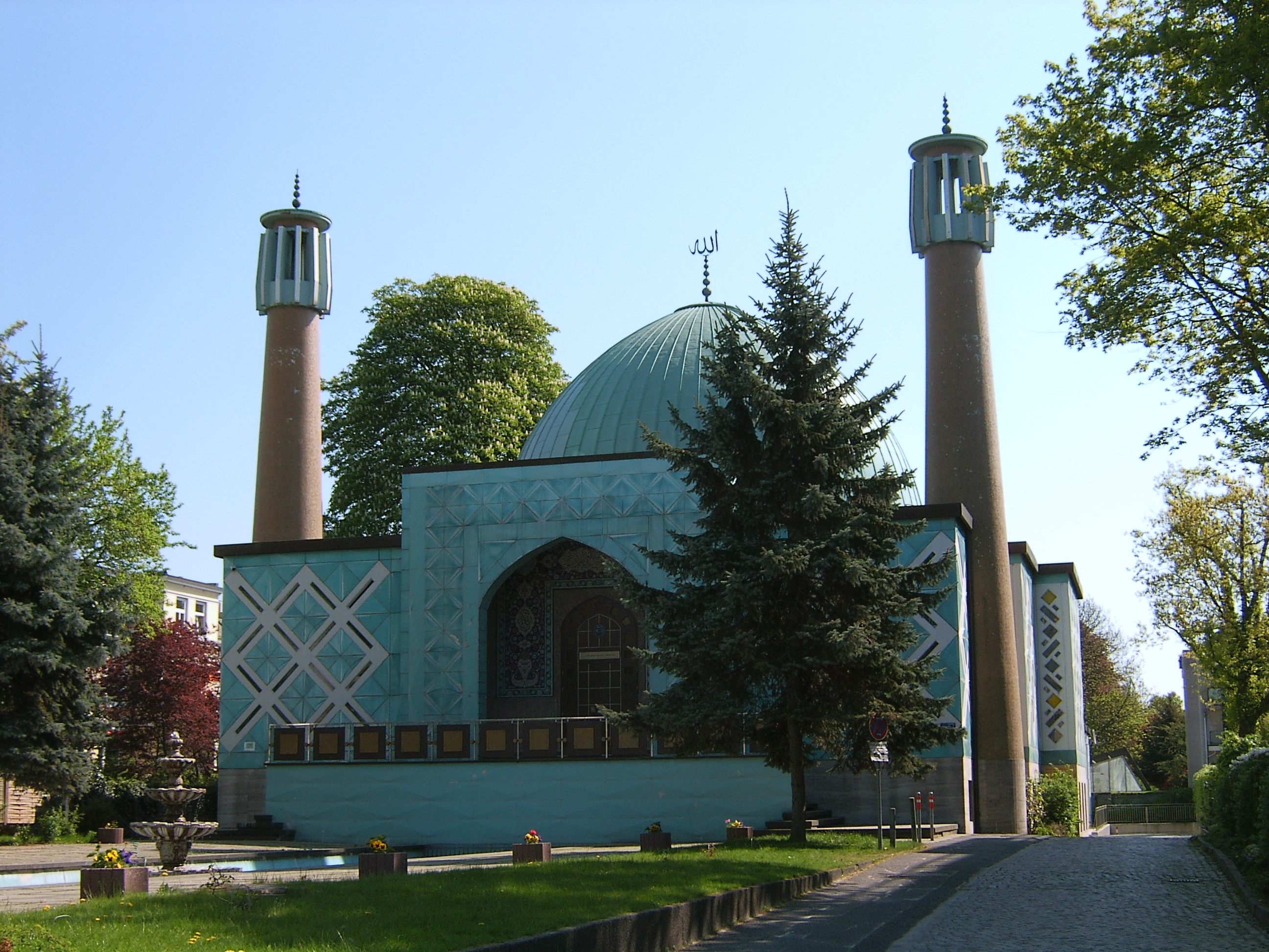 Image: Hamburg, Uhlenhorst, Moschee * Photograf: self * Date: 10.5.2006 This is a photograph of an architectural monument.